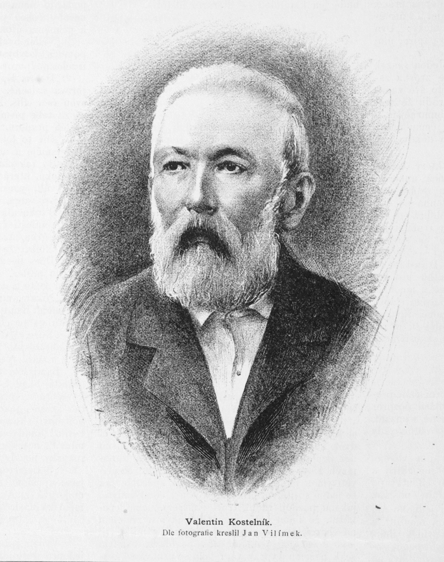 Portrait of Valentin Kostelník (1815-1891), Czech politician active mainly in the 1860s